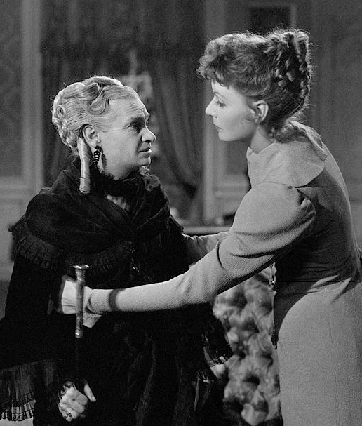 Soviet actress Maria Ouspenskaya and Swedish-born American actress Greta Garbo (Greta Gustafsson) acting in the film 'Conquest'. 1937